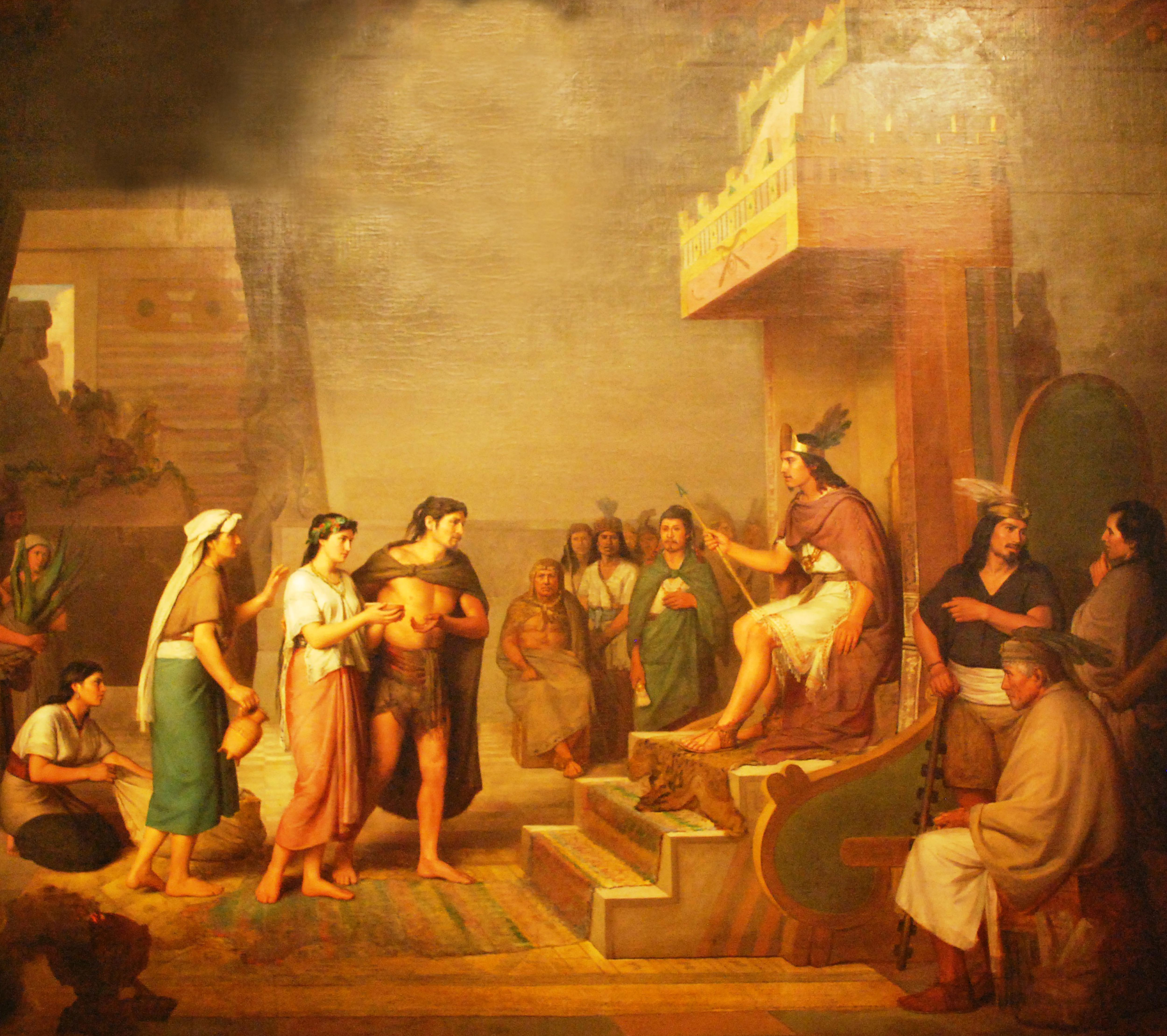 Toltec emperor Tecpancaltzin Iztaccaltzin on the throne being presented pulque and sugar. Papantzin is the man in front of him, next to him is his daughter Xochitl. She will be Iztaccaltzin's first wife and successor.